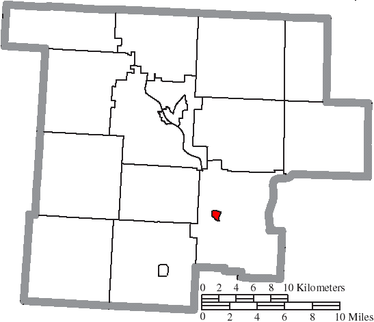 Map of the municipal and township boundaries of Morgan County, Ohio, United States, as of the 2000 census, with the location of the village of Stockport highlighted. Township borders are shown only in unincorporated areas in order to differentiate incorporated and unincorporated areas more clearly.